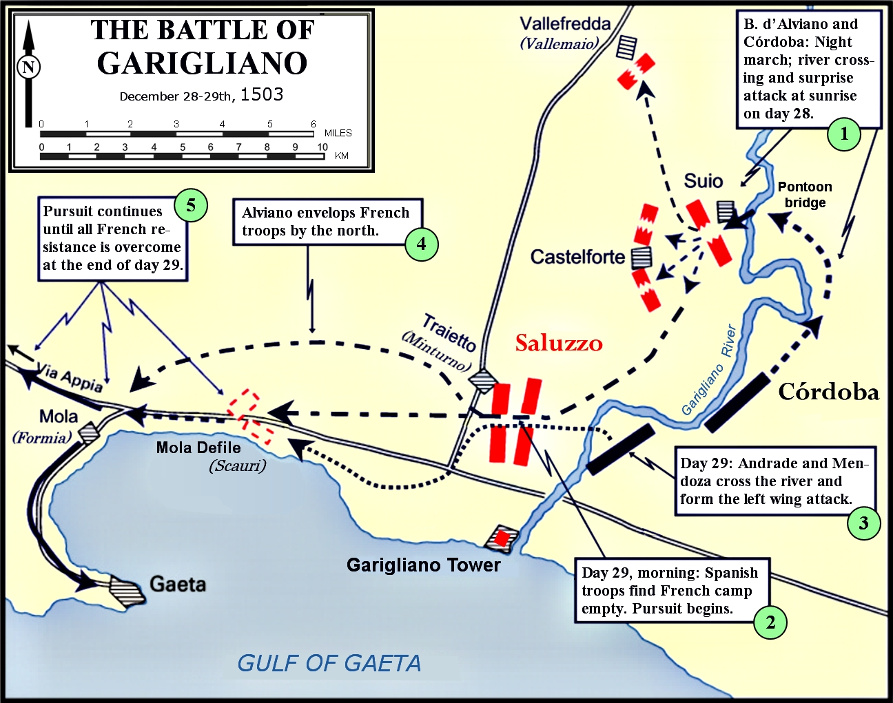 Map of the Battle of Garigliano (December 28-29th, 1503).